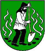 Coat of arms of Slovak village Vernár, Poprad District, Prešov Region.